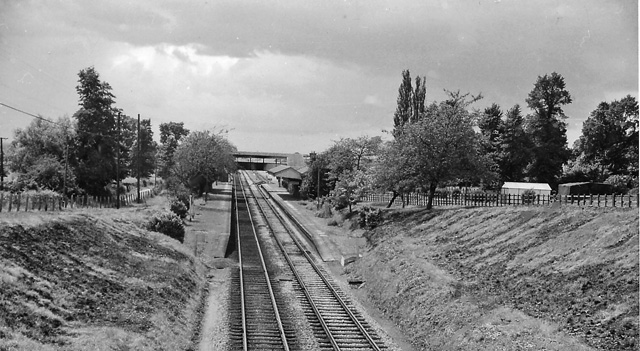 Brinkworth Station (remains). View westward, towards the Severn Tunnel and South Wales; ex-GWR London - Swindon - South Wales direct Main line. The station had been recently closed, on 3/4/61.